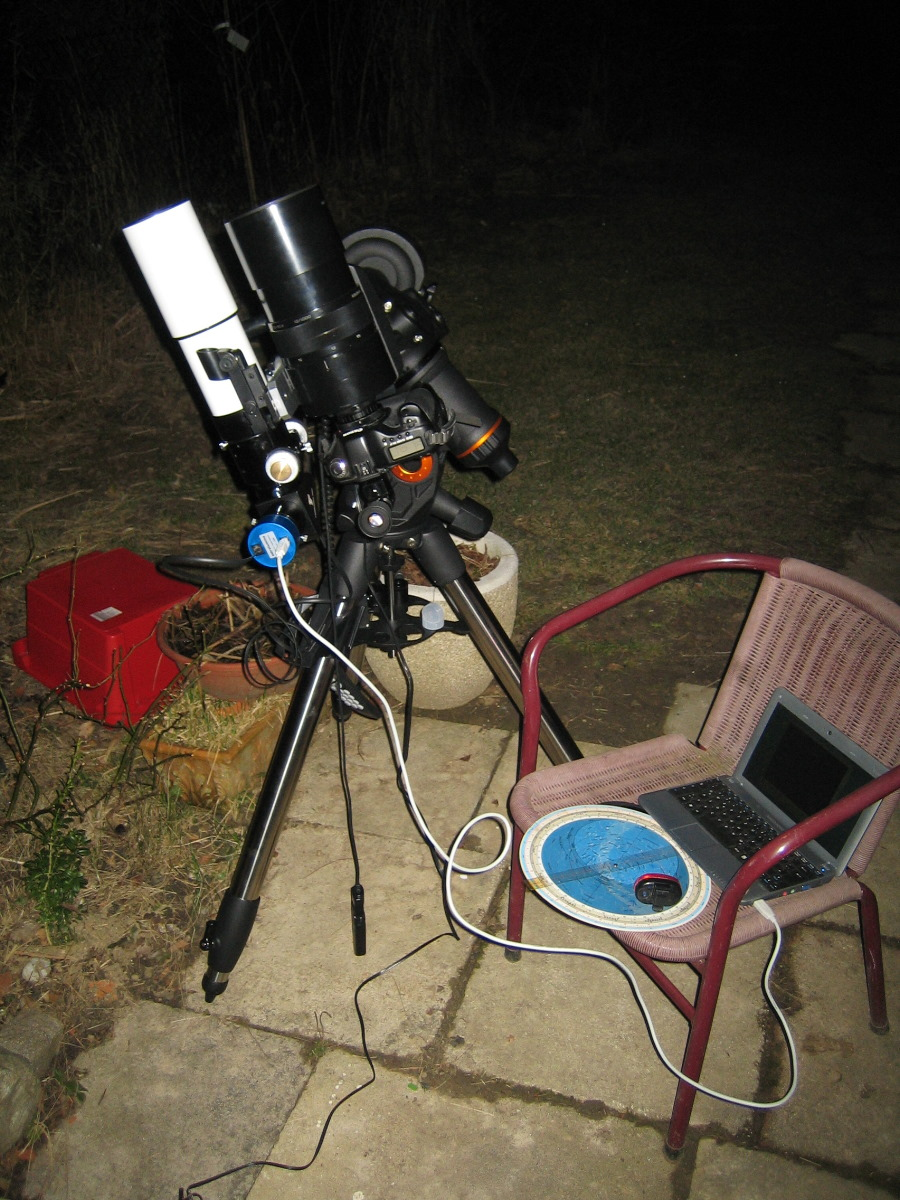 Two amateur telescopes joint on a mount. The one on the left hand side is for tracking and calibrating the mount via a PC, the right one is for photography.